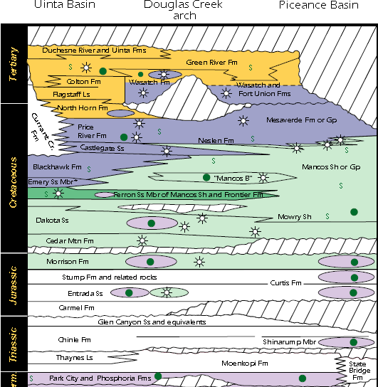 Uinta Piceance Basin stratigraphic column. Orange is the Green River System, dark purple is the Mesaverde System, dark green is the Ferron/Wasatch Plateau System, light green is the Mancos/Mowry System, and light purple is the Phosphoria System. Green circles represent significant oil production, open star-circles represent significant gas production, and "S"s represent source rocks.